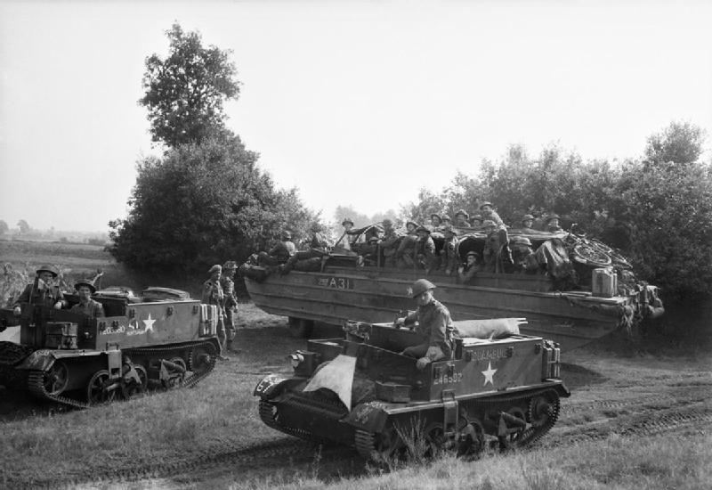 DUKW and Universal Carriers of 5th Duke of Cornwall's Light Infantry, 43rd Division, the Netherlands, 18 September 1944. DUKW and Universal carriers of 5th Duke of Cornwall's Light Infantry, 43rd Division, Holland, 18 September 1944.